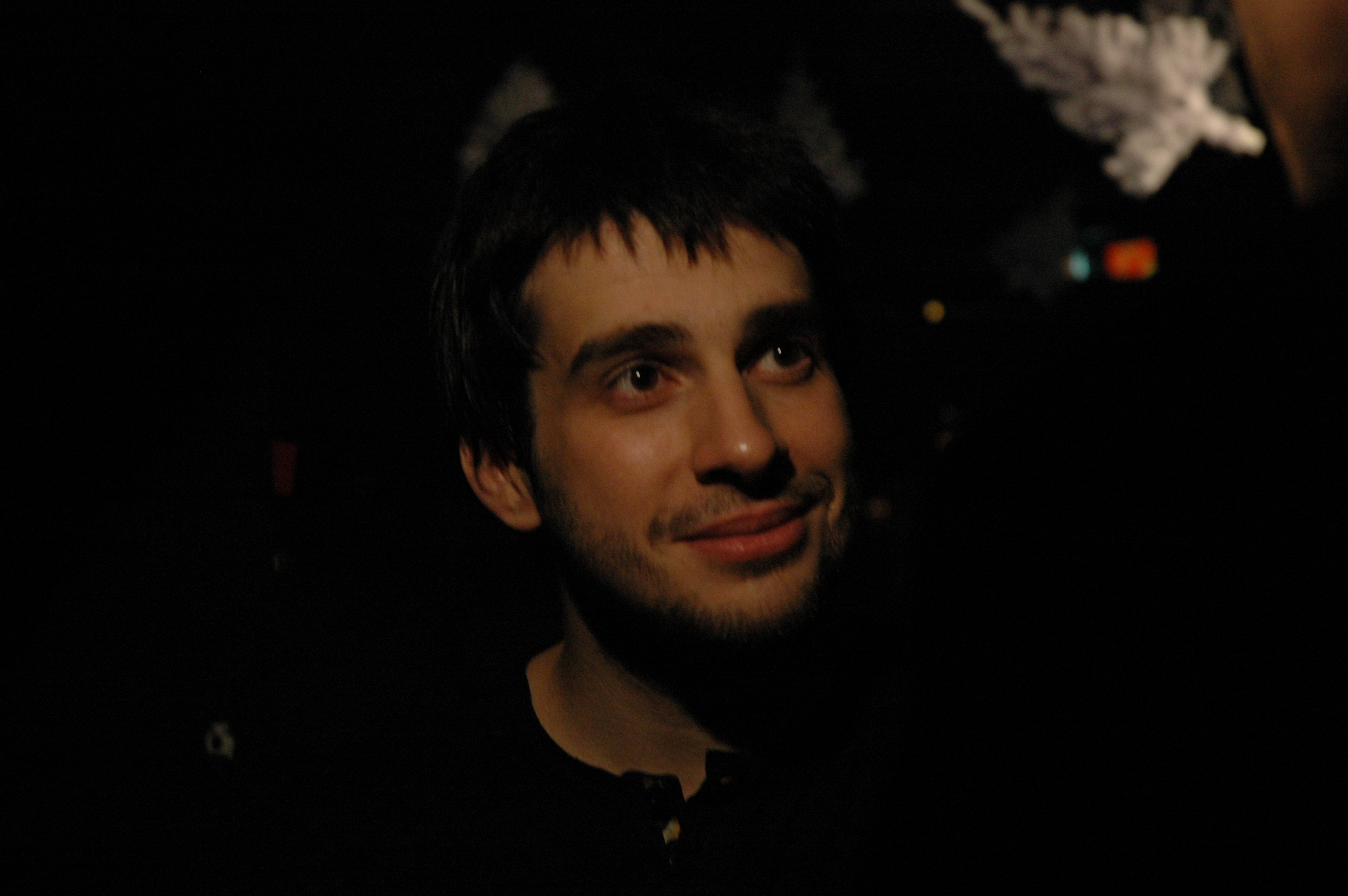 Peter Nalitch, russian musician.